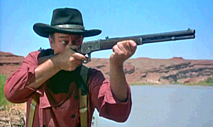 This image is a screenshot from a public domain trailer for the 1956 film, The Searchers. Trailers for movies released before 1964 are in the Public Domain because they were never separately copyrighted.